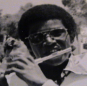 Paul's playing piccolo at Disneyland.